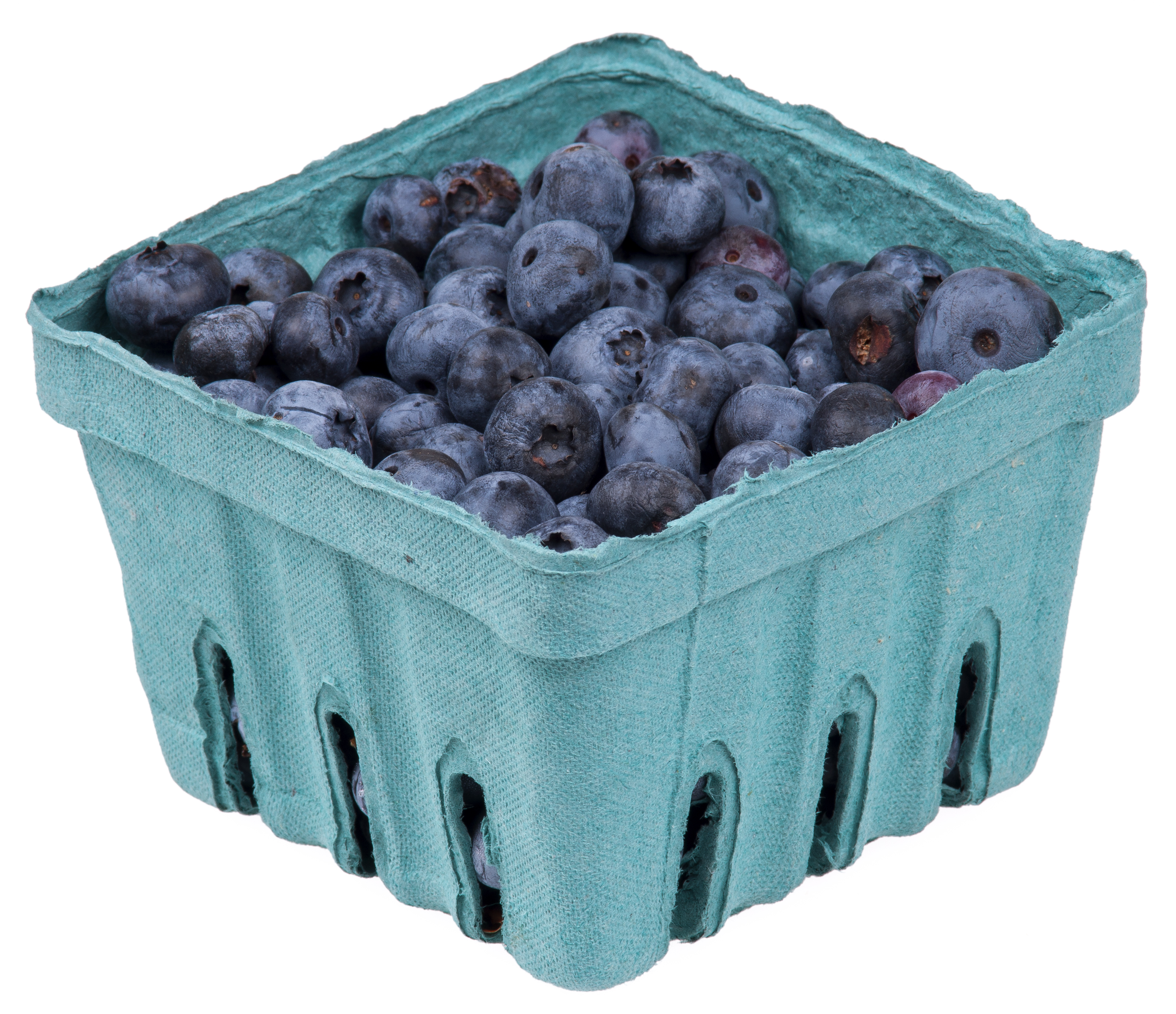 A pulp basket of blueberries from a organic farm co-op program.